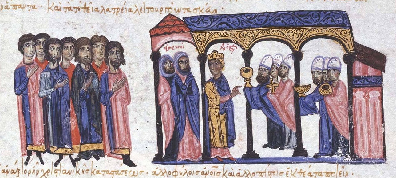 Emperor Leo shows the holy vessels of Hagia Sophia to the Arab ambassadors from Tarsus and Melitene